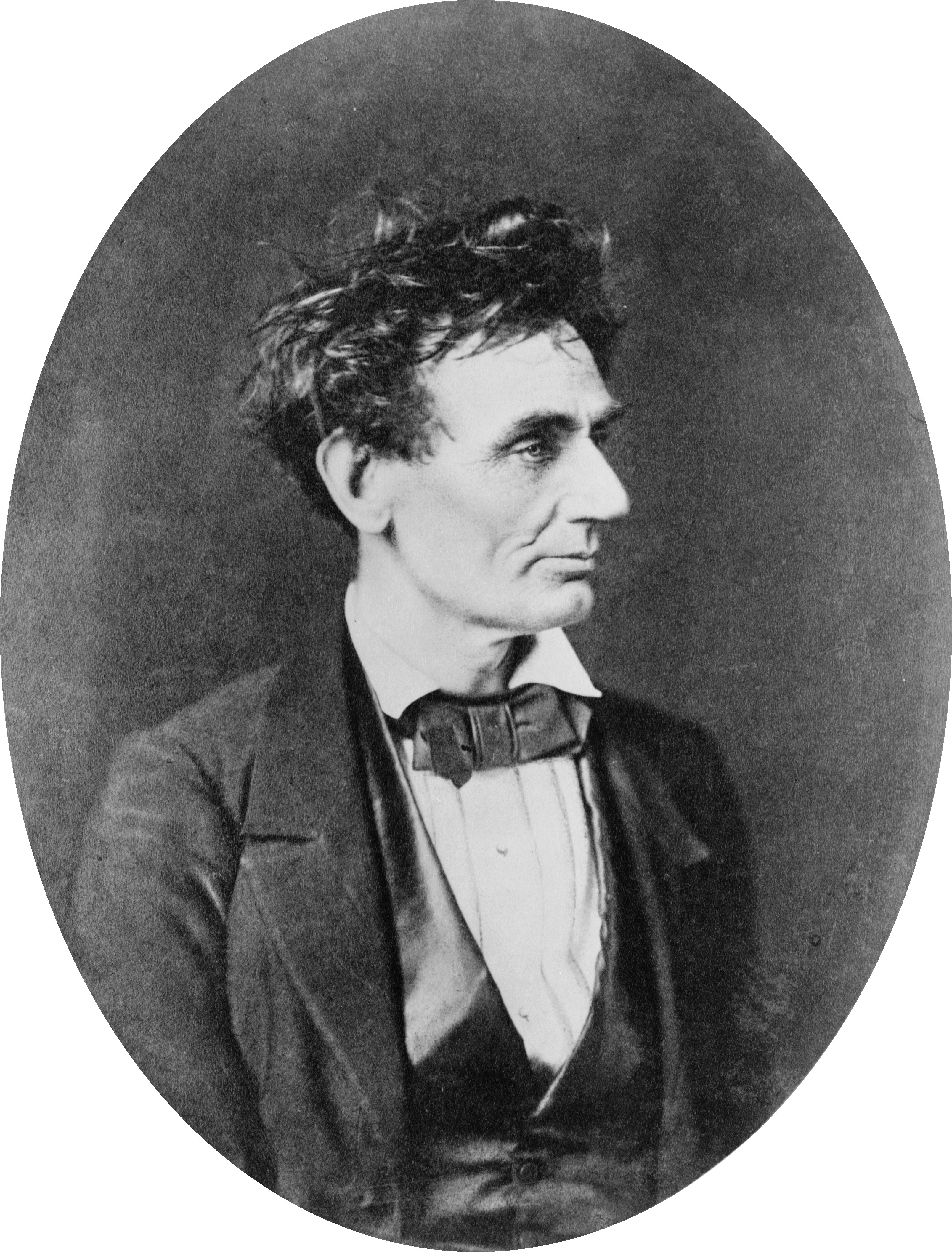 Abraham Lincoln, head-and-shoulders portrait, facing right.